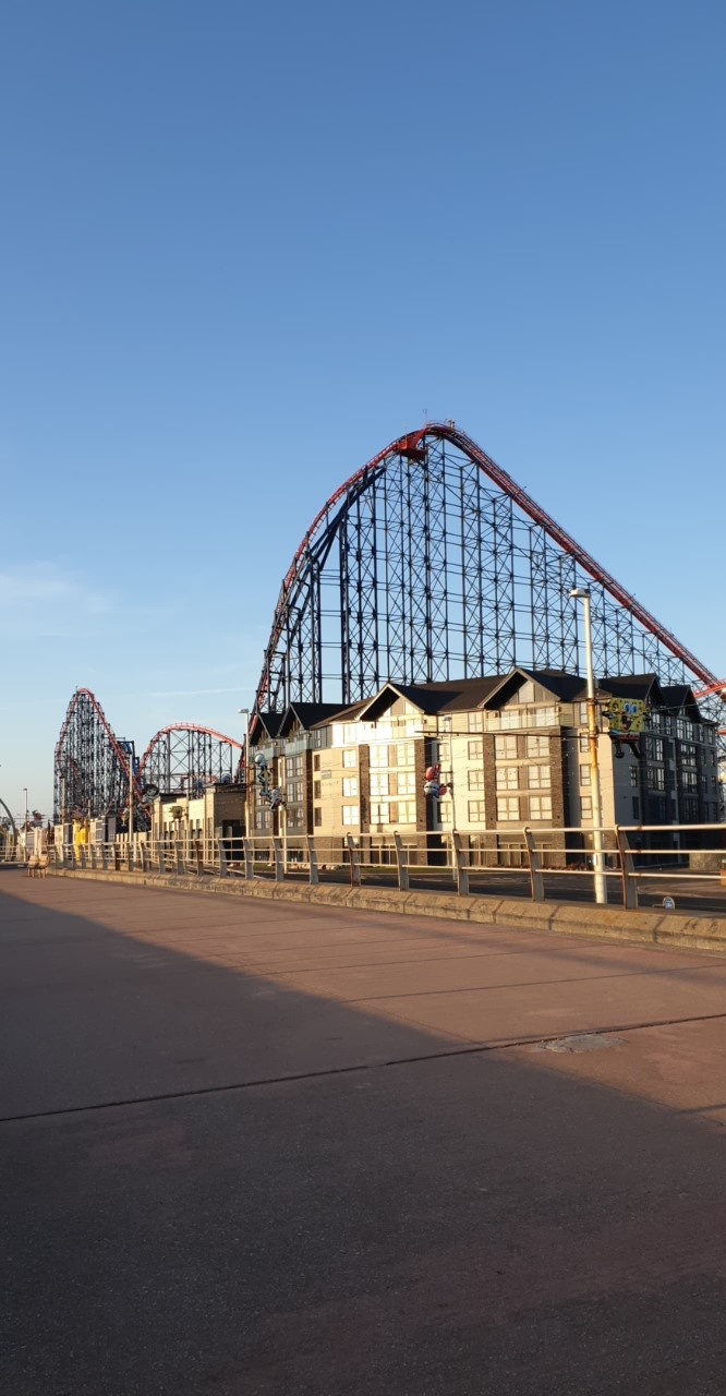 Blackpool Pleasure Beach and Boulevard Hotel